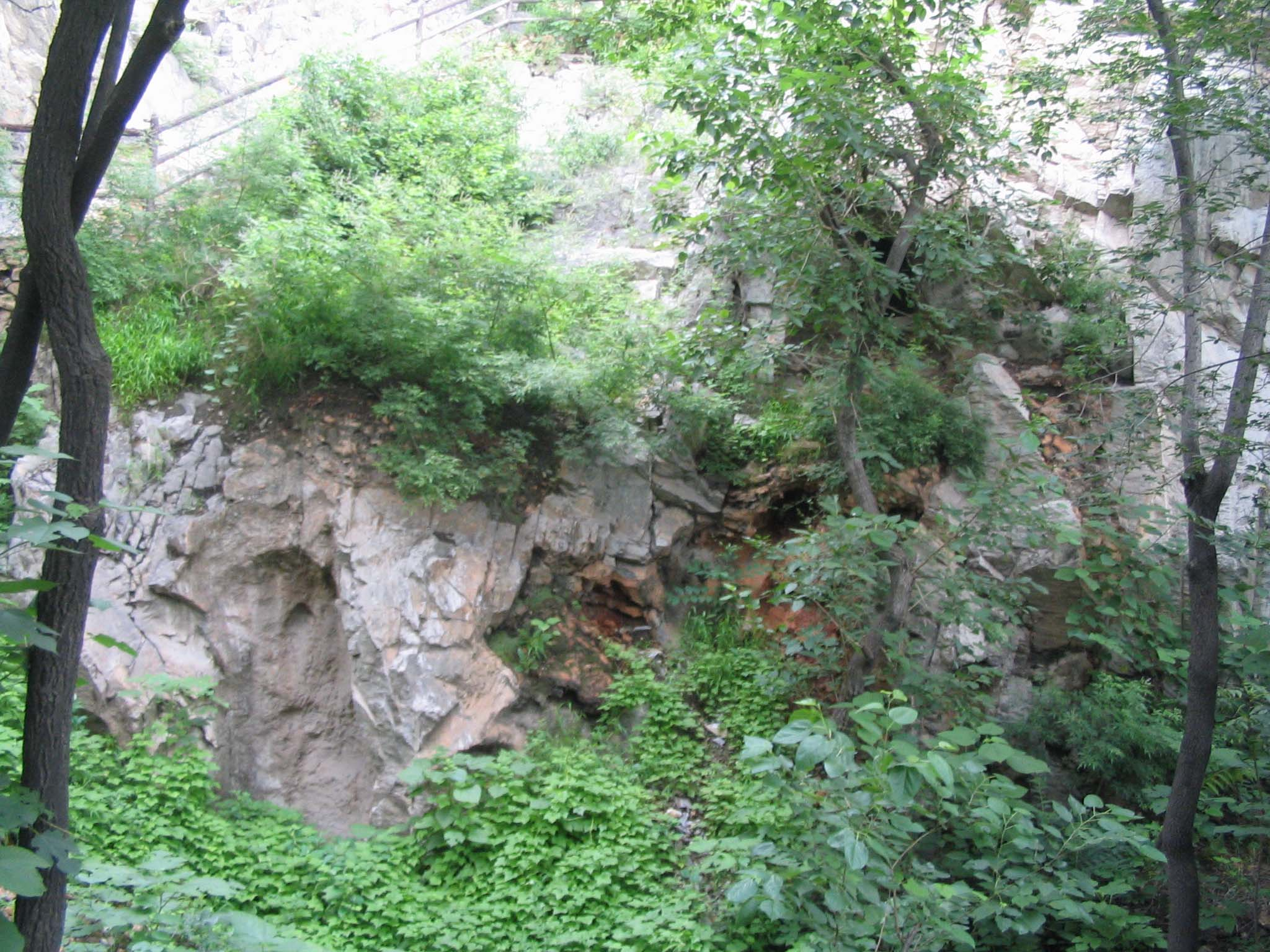 locality 12 of zhoukoudian 周口店第12地点